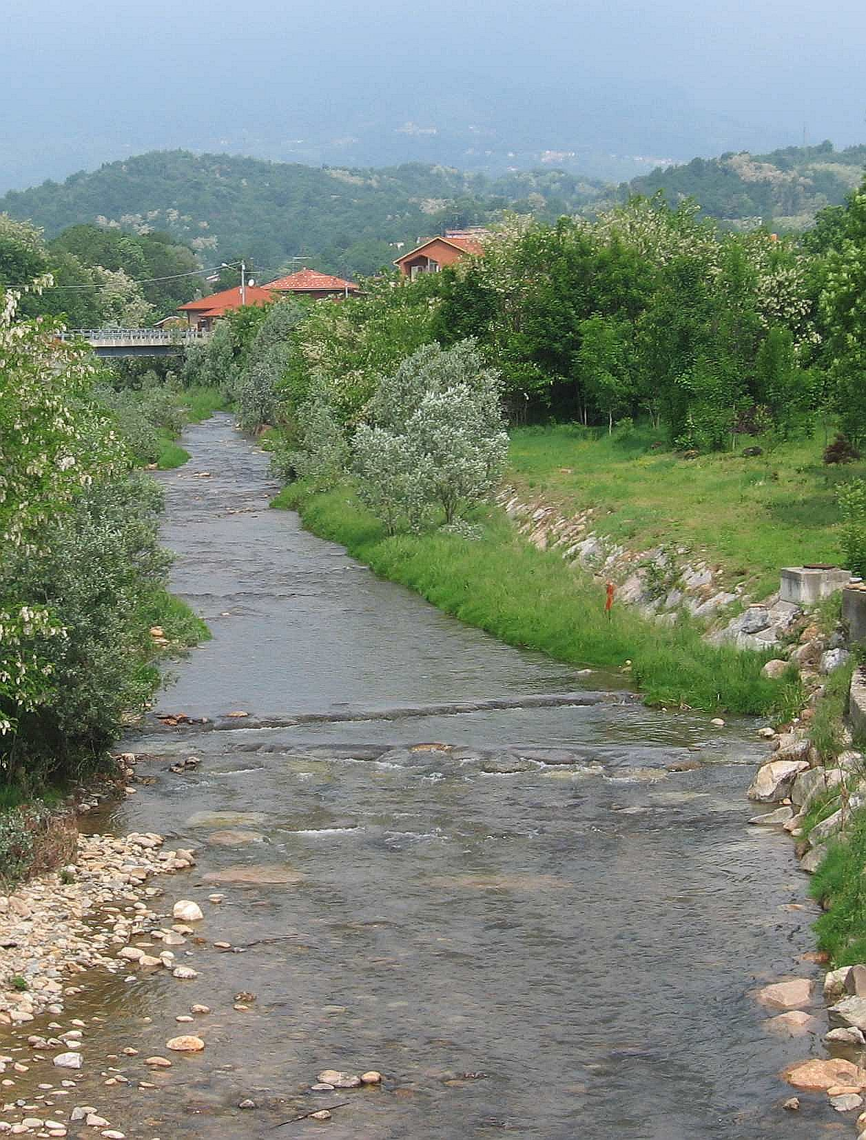 Ingagna valley from Mongrando (BI, Italy)